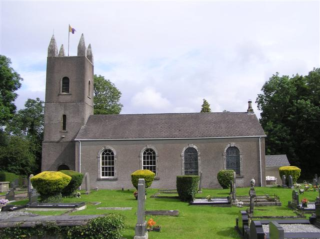 Cleenish Church of Ireland, Bellanaleck It is in the Diocese of Clogher